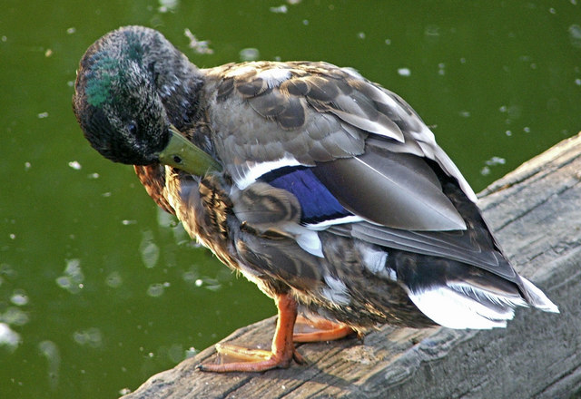 Mallard (Anas platyrhynchos) Here we have a Mallard Drake preening its feathers. This bird is going through its summer moult and is almost indistinguishable with a Mallard Duck.